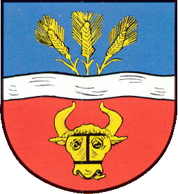 Coat of arms of the municipality Rantrum in Schleswig-Holstein